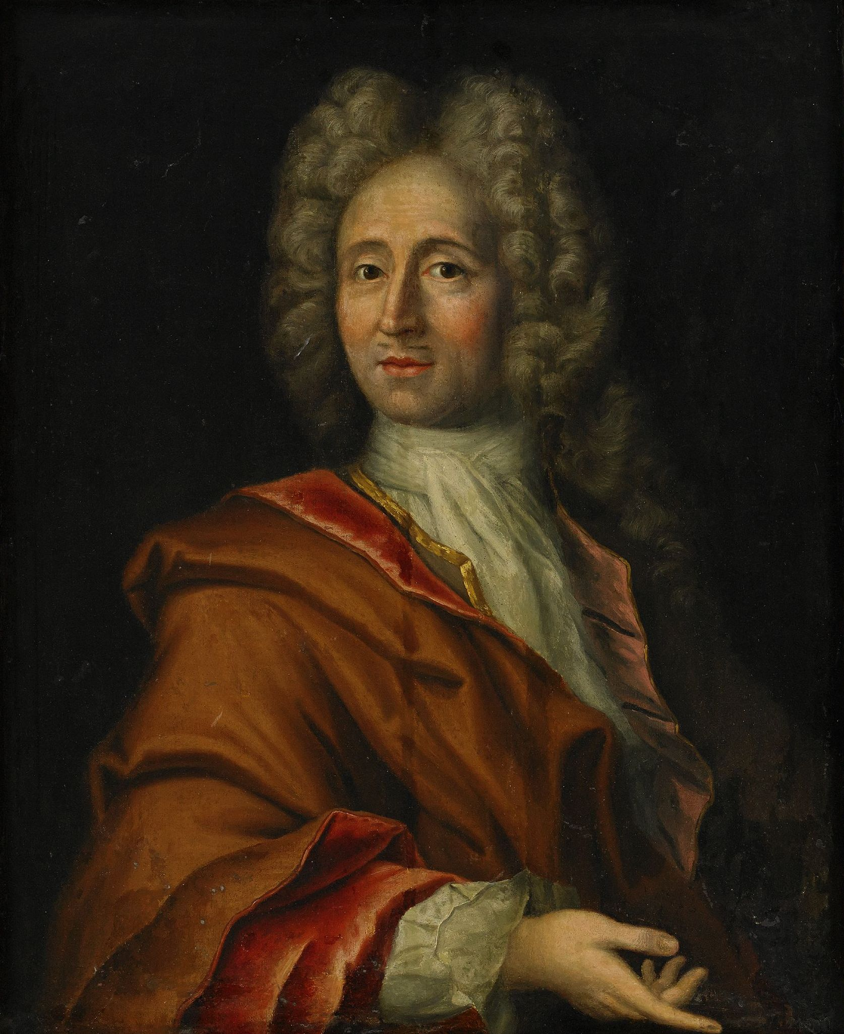 Councilor of State Tomas Polus 1634-1708label QS:Len,"Councilor of State Tomas Polus 1634-1708"